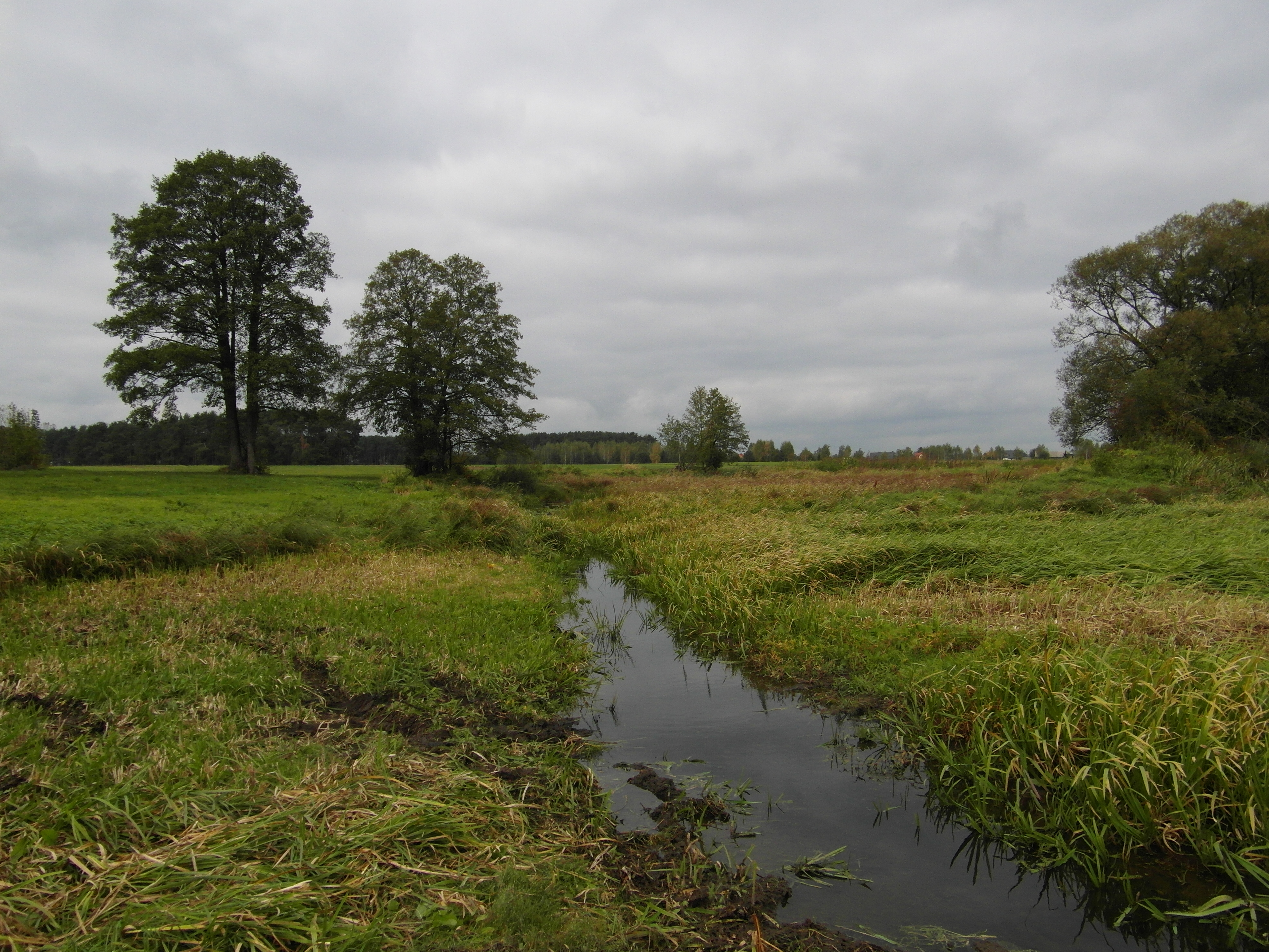 Gulczewo (powiat wyszkowski) seen from Bug river